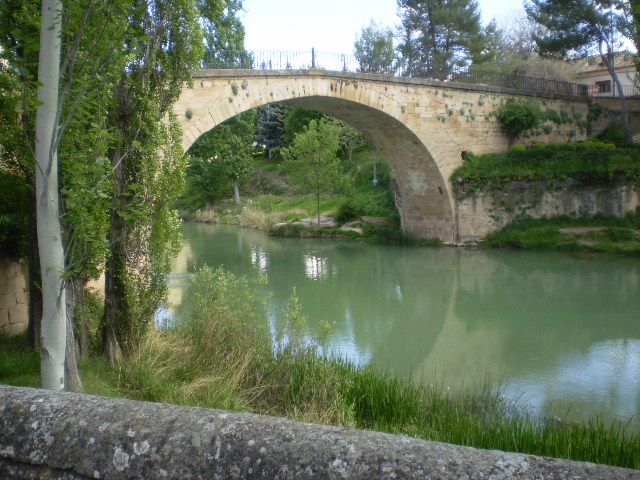 Bridge over Tagus River in Trillo (Spain)